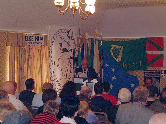 Ruairí Ó Brádaigh speaking at the 2003 RSF Ard Fheis.Taken by myself in 2003